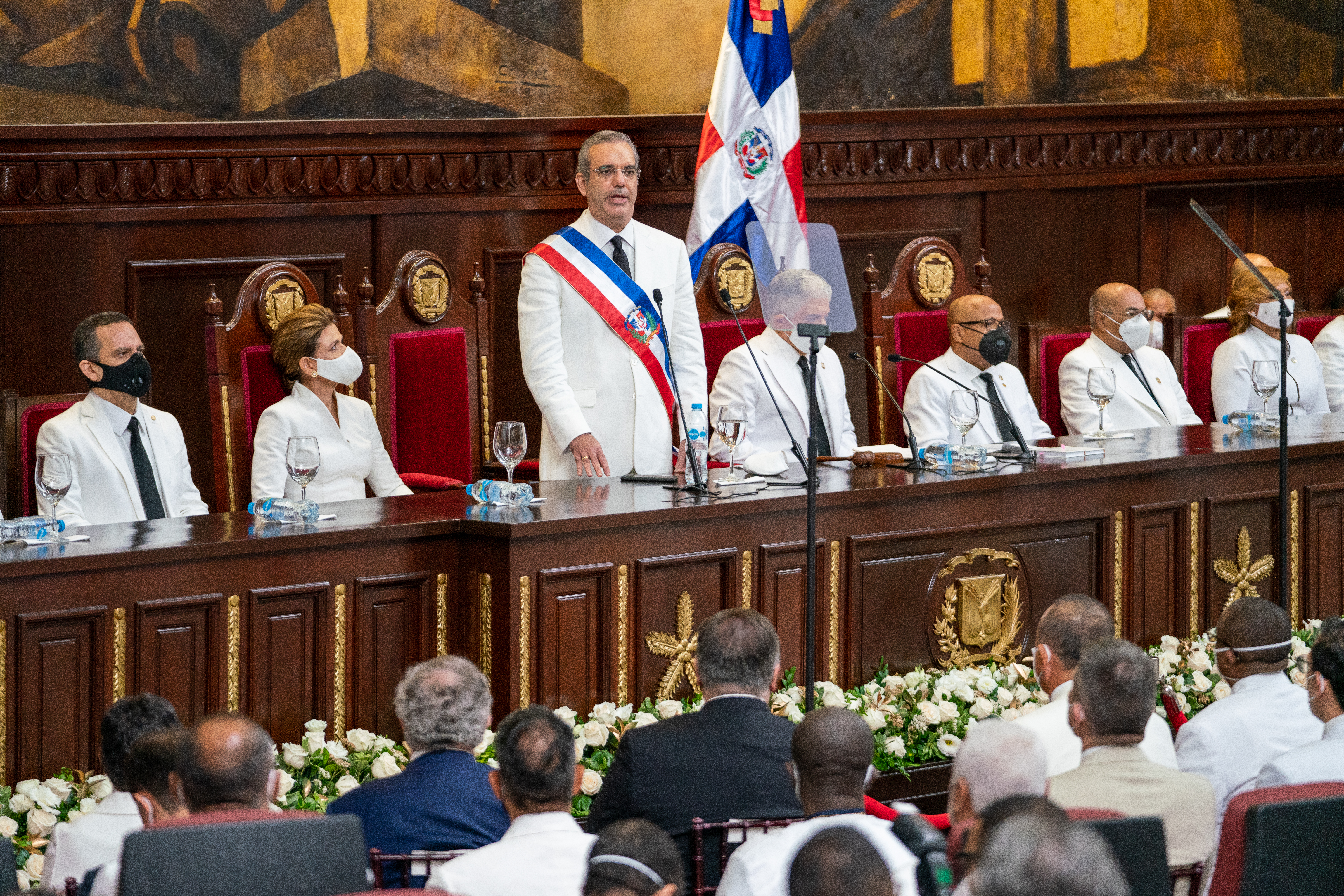 Secretary of State Michael R. Pompeo attends the inauguration ceremony of Dominican President Luis Abinader in Santo Domingo, Dominican Republic, on August 16, 2020. [State Department photo by Ron Przysucha/ Public Domain]